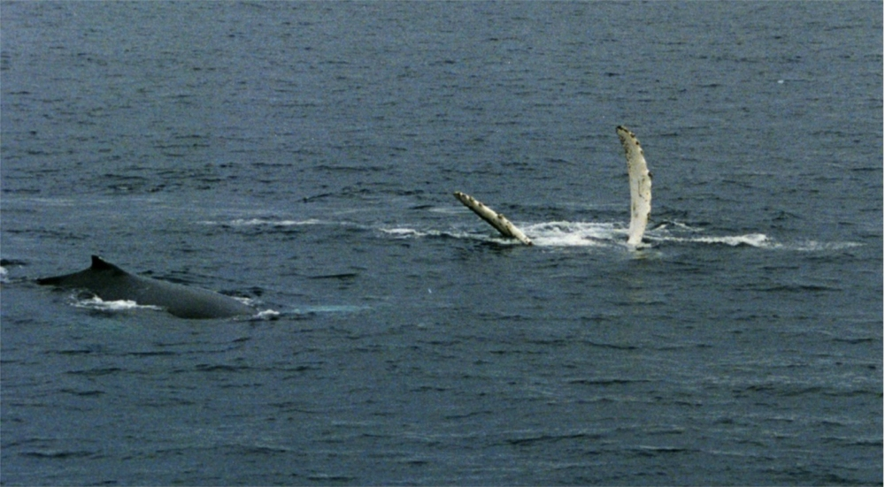 Humpback Whales in Antarctica. The picture is a scan of an old film picture. The picture was taken by Brocken Inaglory